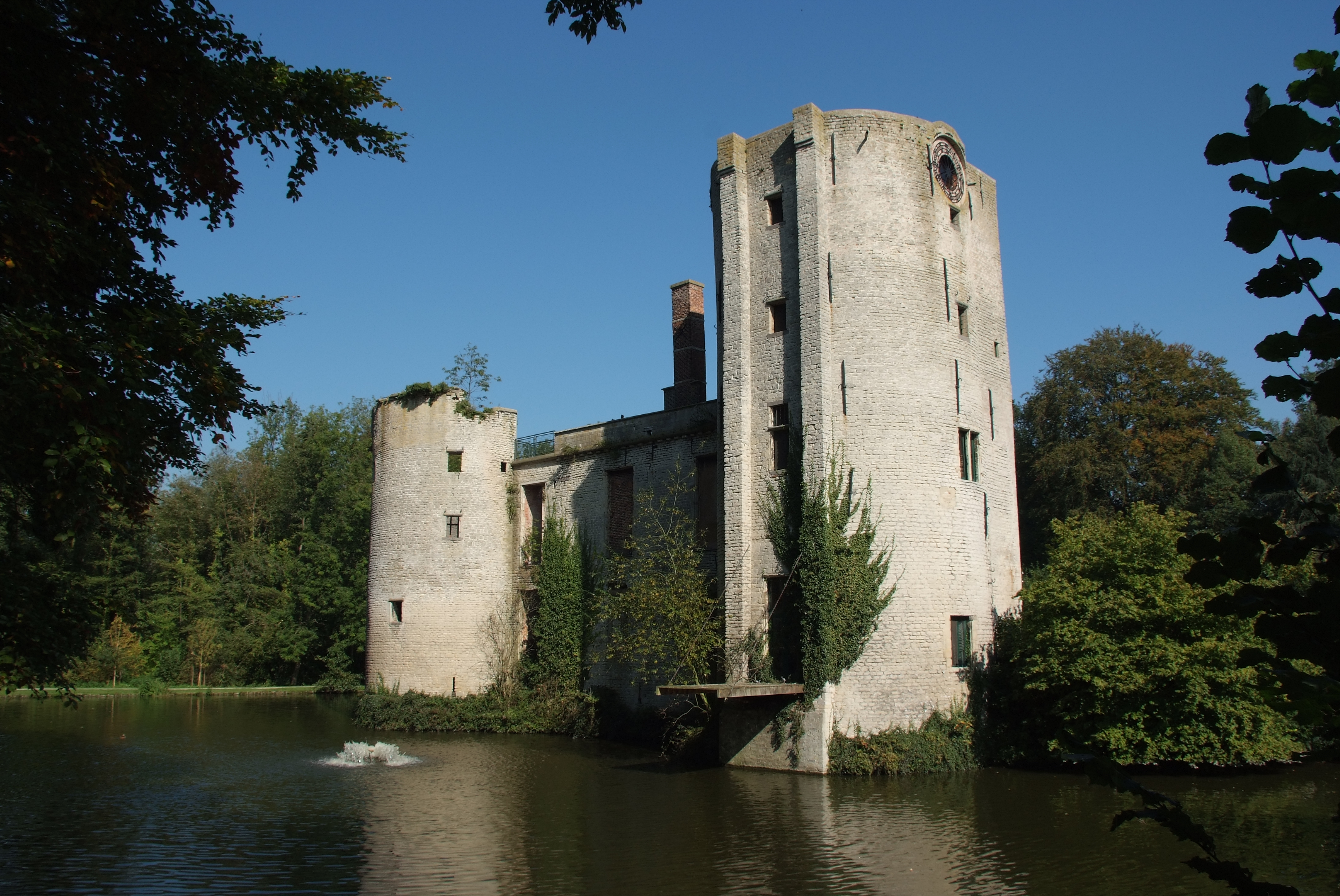 Castle "Het Prinsenhof", Grimbergen, Belgium